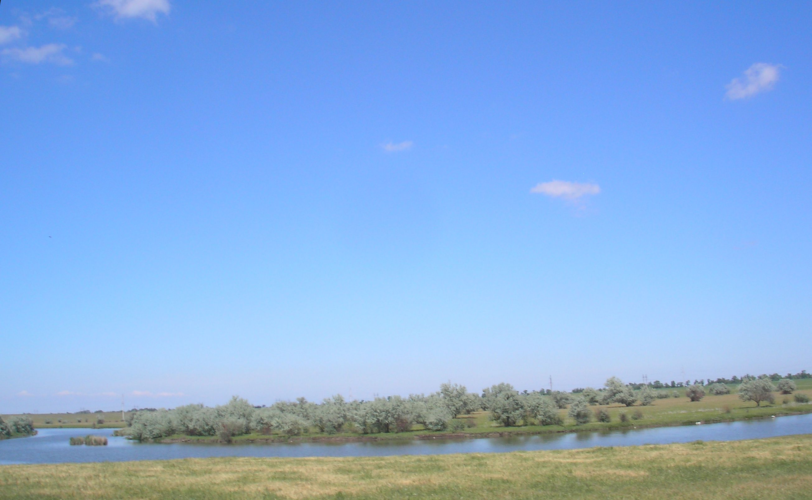 River Chatyrlyk Crimea.